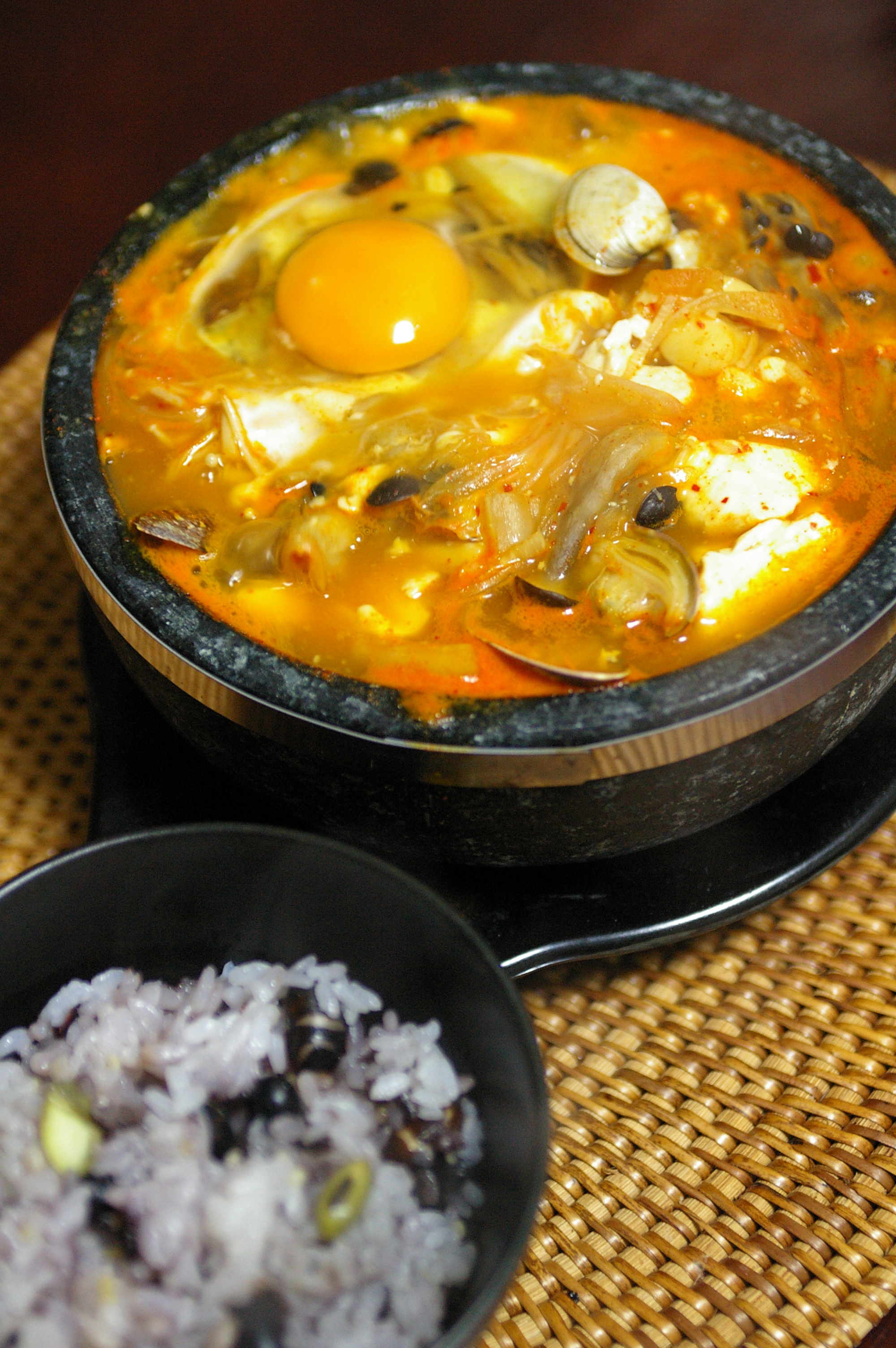 순두부 찌개와 검은 콩밥, Sundubu jjigae with a bowl of steamed black bean rice.